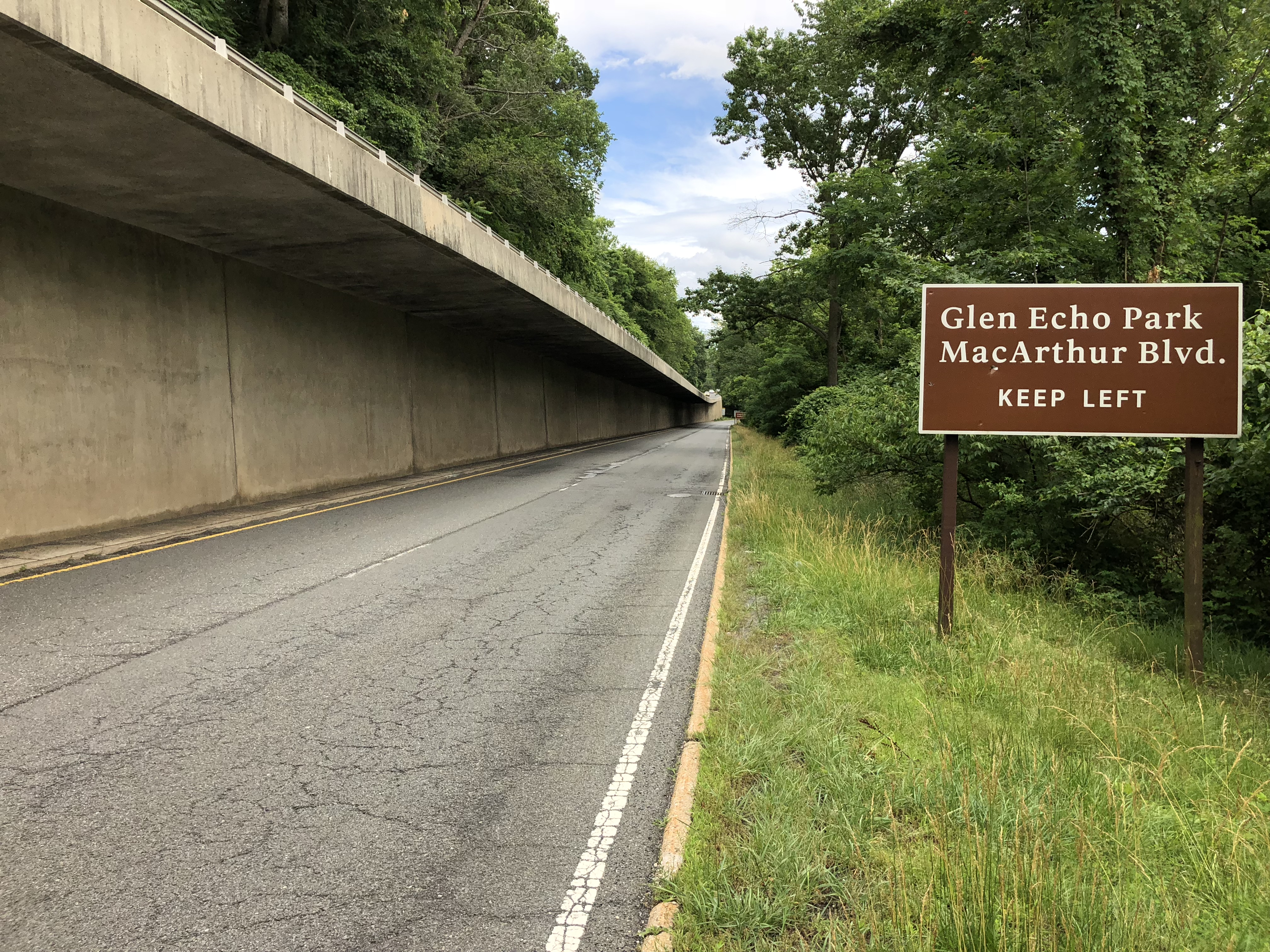 View southeast along the Clara Barton Parkway between the exit for Cabin John and the exit for MacArthur Boulevard in Glen Echo, Montgomery County, Maryland